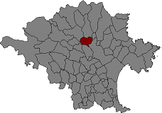 Location of Masarac in Alt Empordà